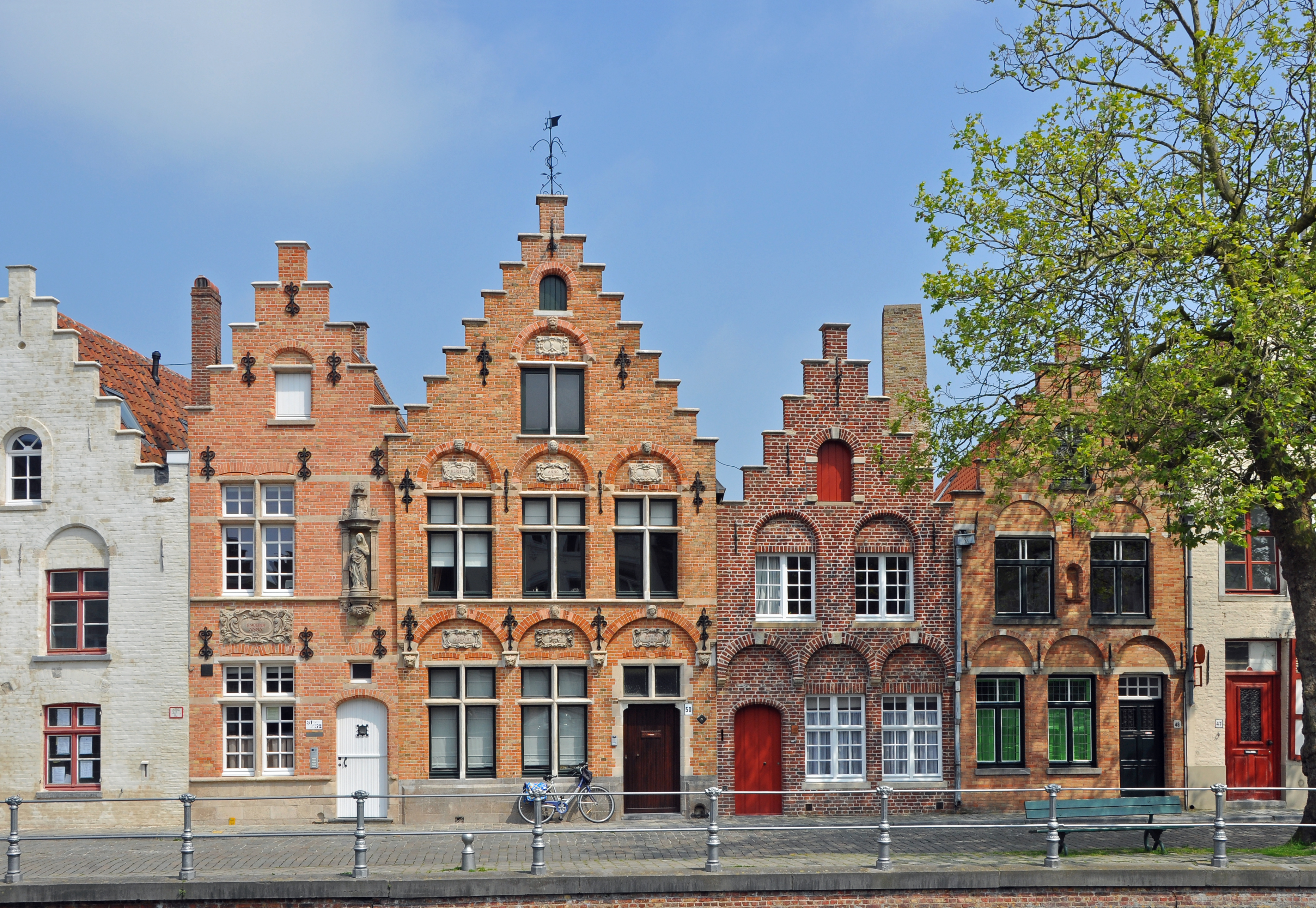 Bruges (Belgium): houses at the Potterierei